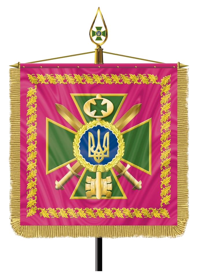 Flag of the State Border Guard Service of Ukraine